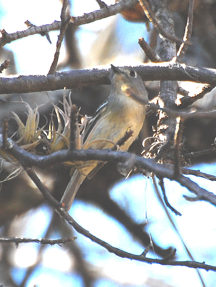 Dwarf Vireo at Teotitlan, Oaxaca, Mexico, 080402. Vireo nelsoni.